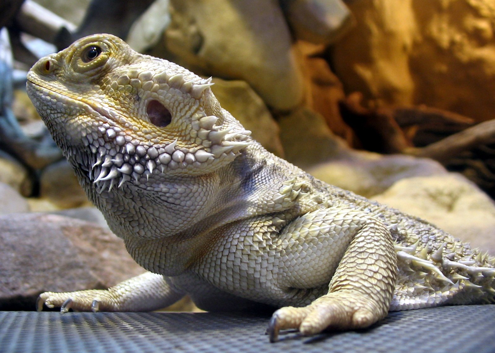 A frontal portion of a body of bearded dragon (Pogona vitticeps)